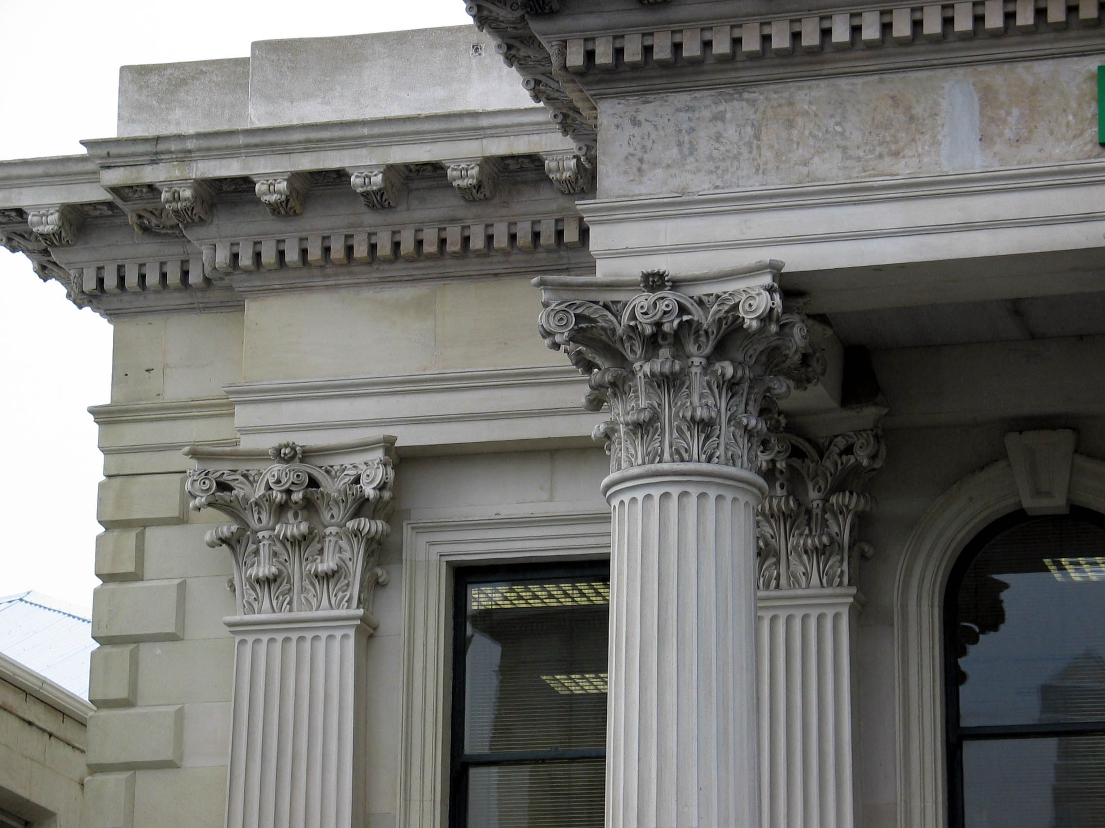 This is a detail of the National Bank, in Oamaru, New Zealand.